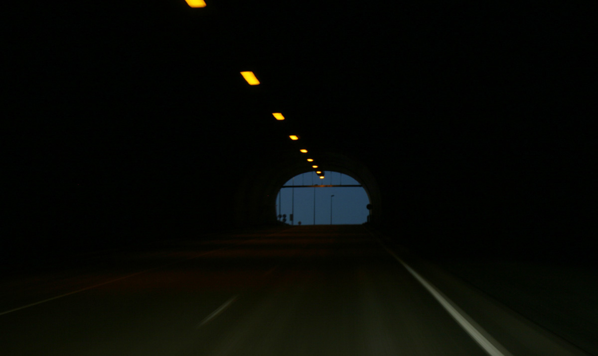 Exit of the Hvalfjörður tunnel, November 21 08:55 Iceland, November 2007 Photo by me user debivort (or friend, with permission given to upload and license freely).